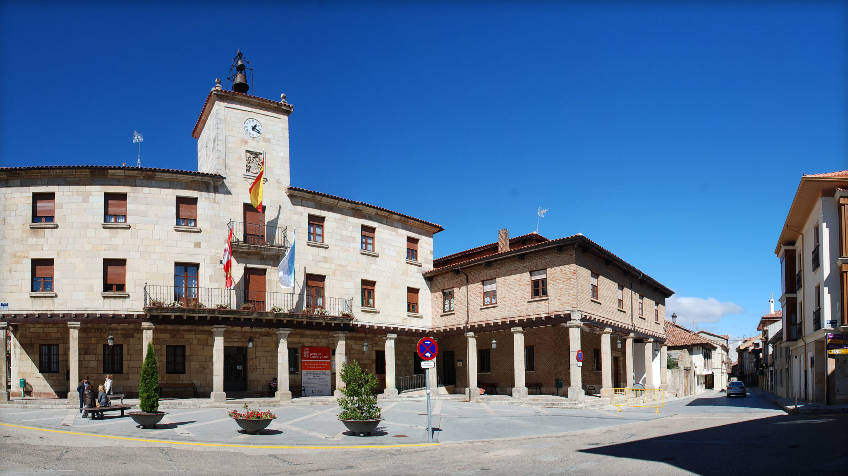 Town hall of Cervera de Pisuerga (province of Palencia, Castile and León, Spain).